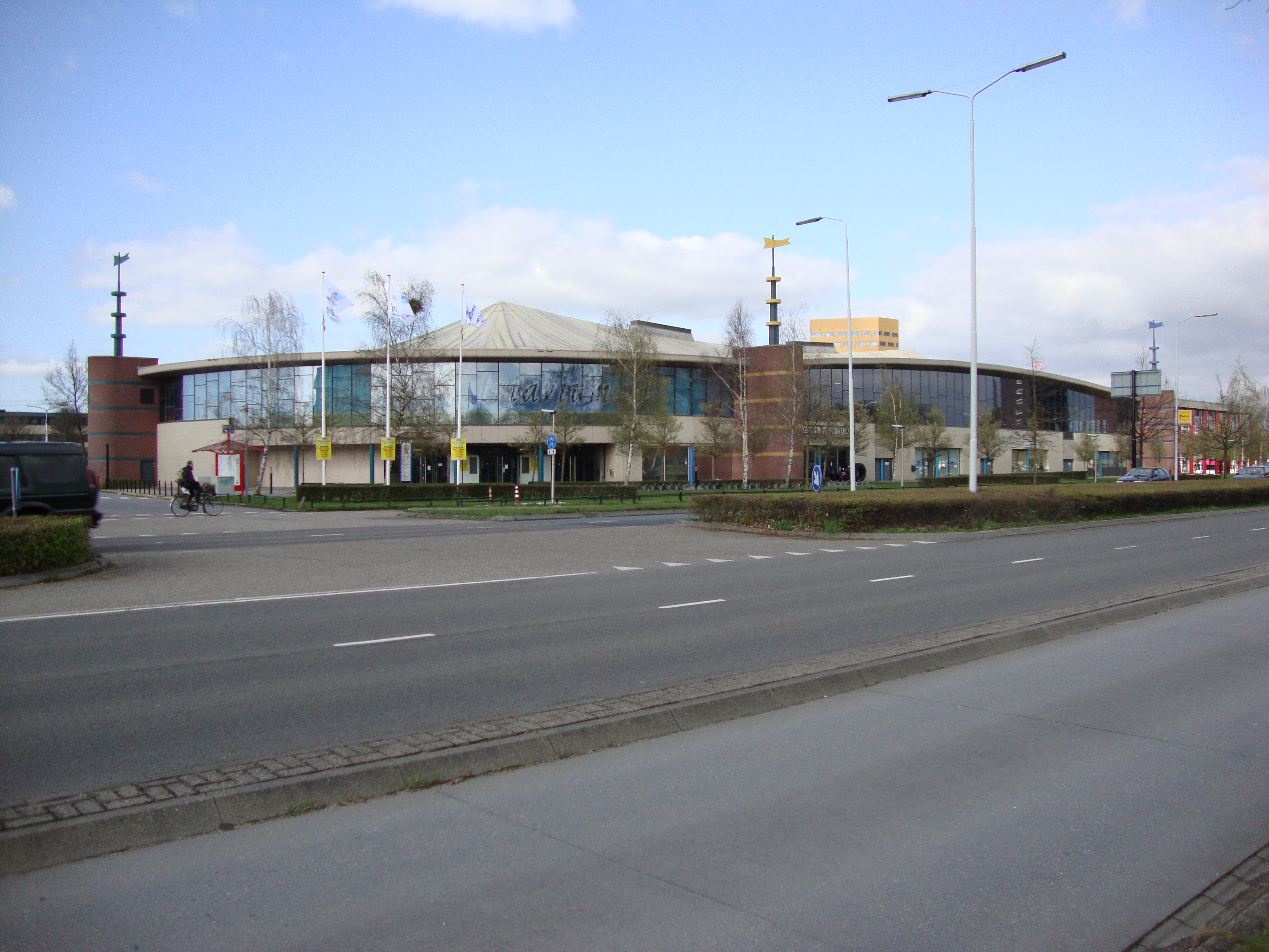 Nijmegen Dukenburg, Tolhuis, ice skating venue and congress center Triavium.